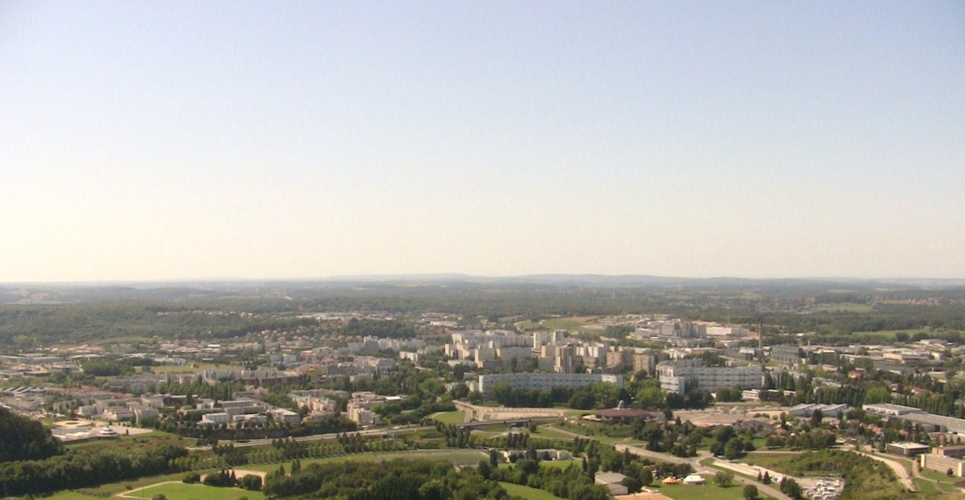 The area of Planoise from the hill of Rosemont, in Besançon (France)